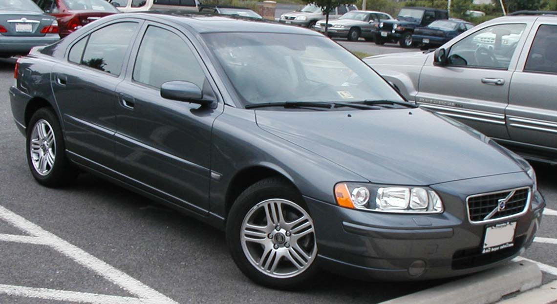 2001-2006 Volvo S60 photographed in USA.